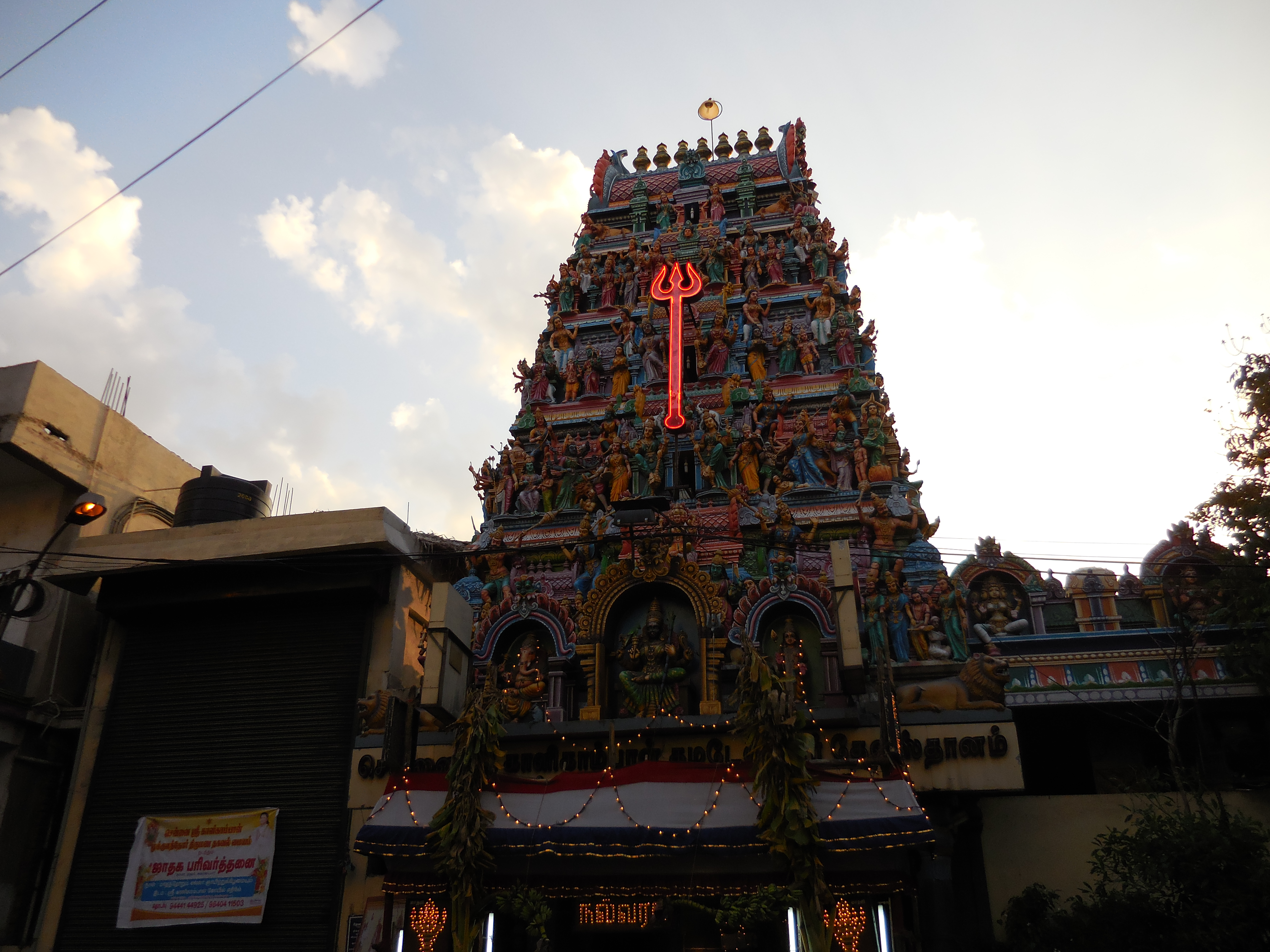 Gopuram of Kaalikaambaal Temple, Chennai, taken on 6 July 2014 at 6:07 pm